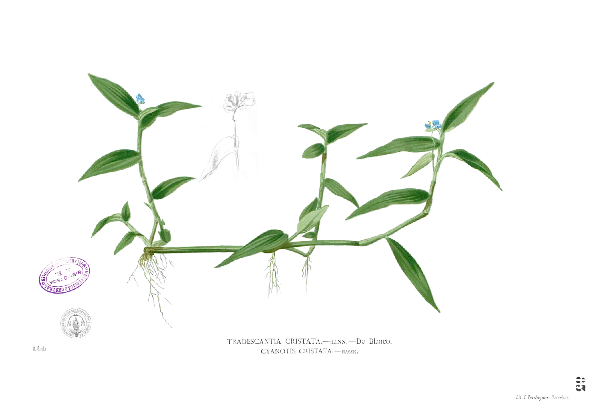 Plate from book